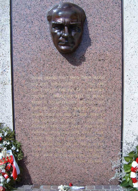 The Kemal Atatürk Memorial has an eminent place on ANZAC Parade, the central ceremonial and memorial avenue of Canberra, the capital city of Australia. This picture shows the bust and the words of condolence said by Atatürk regarding those lost during the invasion of the Gallipoli Peninsula in 1915: Those heroes that shed their blood and lost their lives... you are now lying in the soil of a friendly country. Therefore rest in peace. There is no difference between the Johnnies and the Mehmets to us where they lie side by side here in this country of ours... You the mothers who sent their sons from far away countries wipe away your tears. Your sons are now living in our bosom and are in peace. Having lost their lives on this land they have become our sons as well. I took this picture on Thursday 28 April 2005, just days after ANZAC Day, when the floral tributes were laid. Peter Ellis 04:19, 1 May 2005 (UTC)